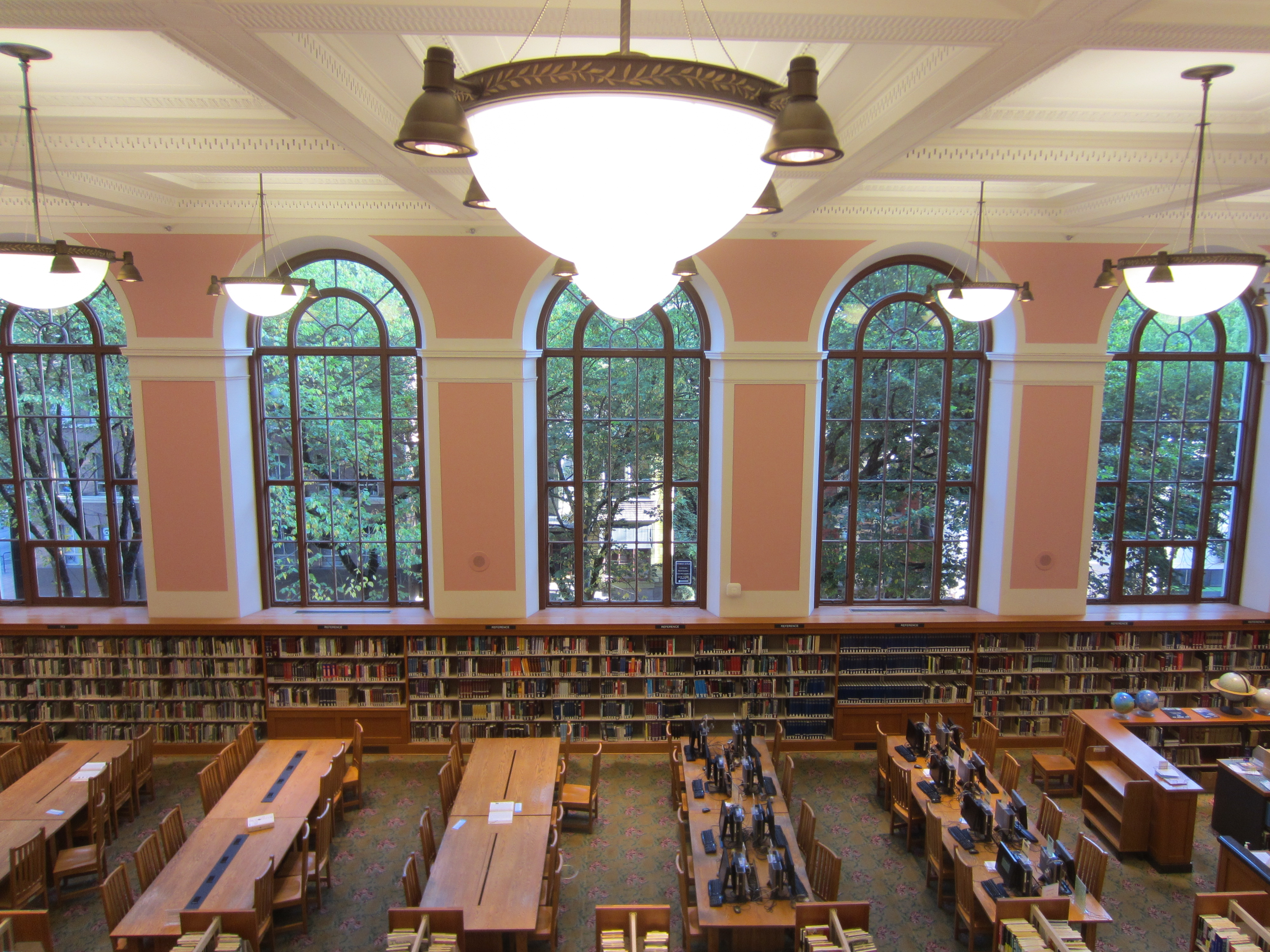 Central Library, Portland, Oregon (2012)